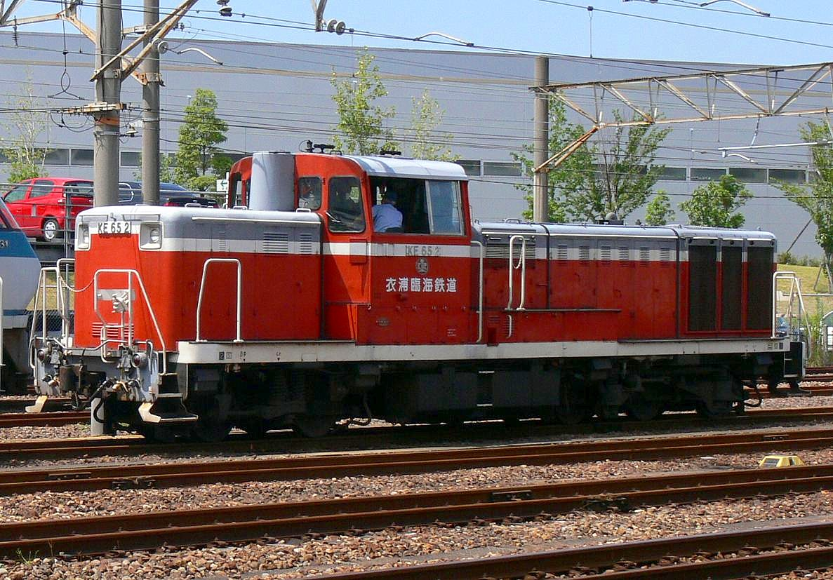 Kinuura Rinkai Railway diesel locomotive type KE65 on Ōbu Station, which was renumbered from JNR DE10 563